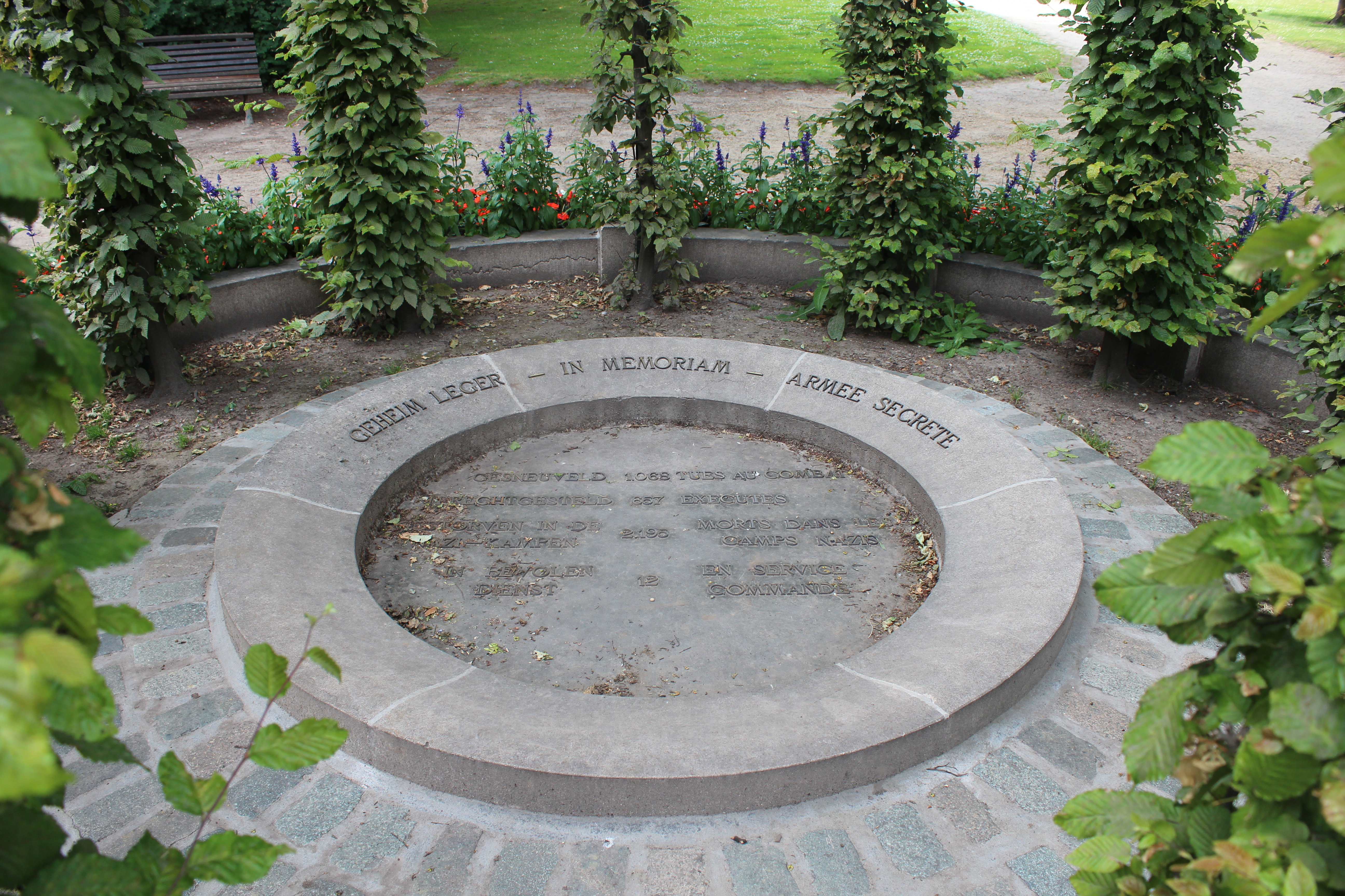 Monument Armée Secrète / Geheim Leger 1940-1944, Square Frère-Orban, Brussels.